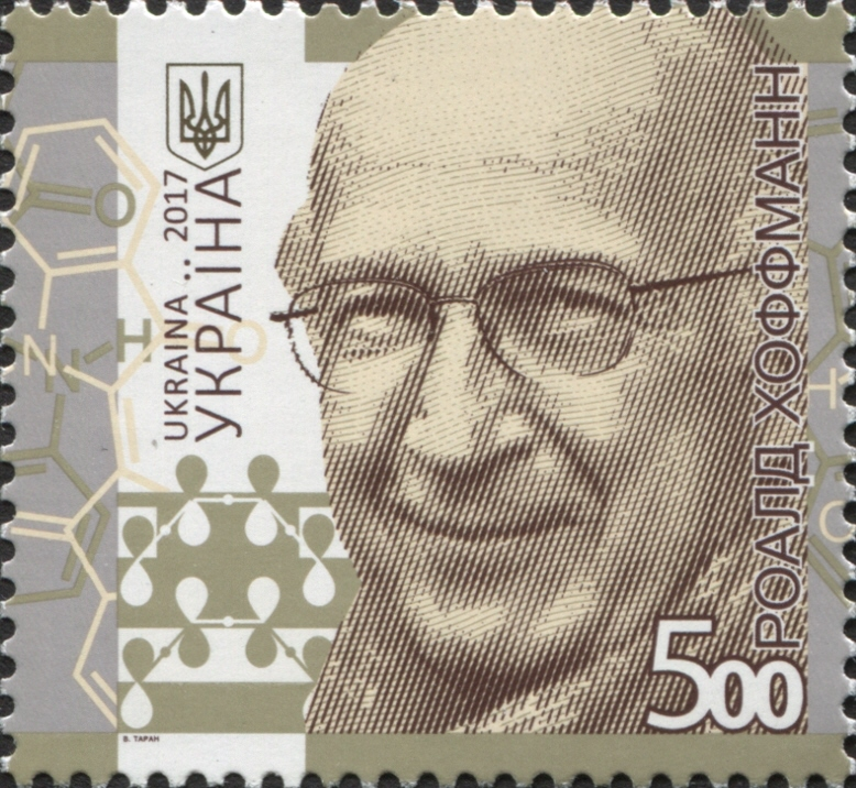 Nobel Laureates - Roald Hoffmann